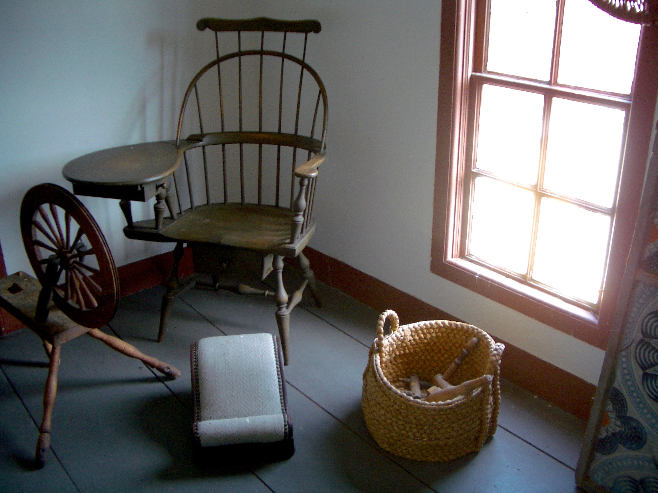 Wentworth-Coolidge Mansion, Portsmouth, New Hampshire, USA, upstairs room furnished with antiques to suggest domestic labor.